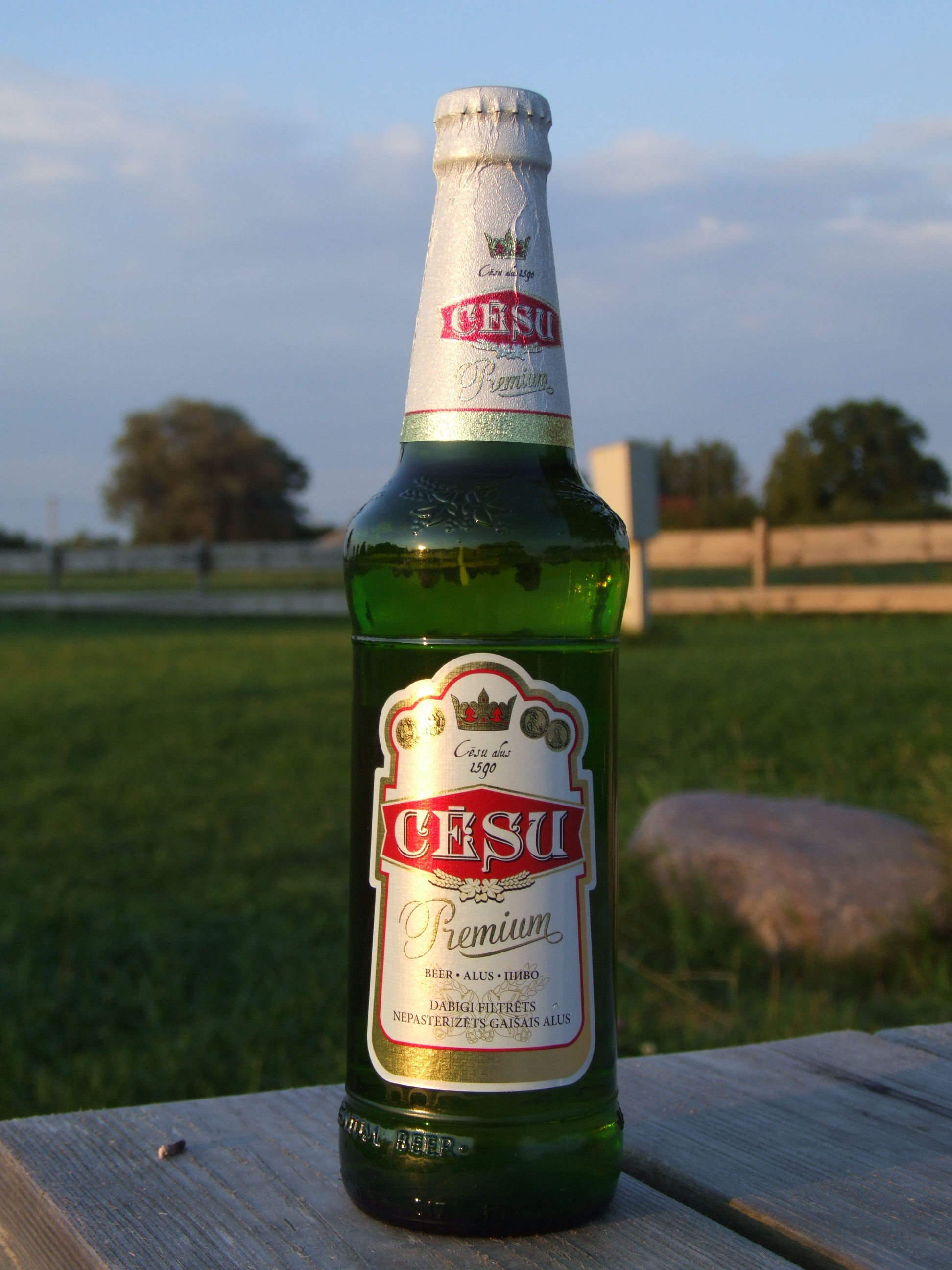 Cēsu beer